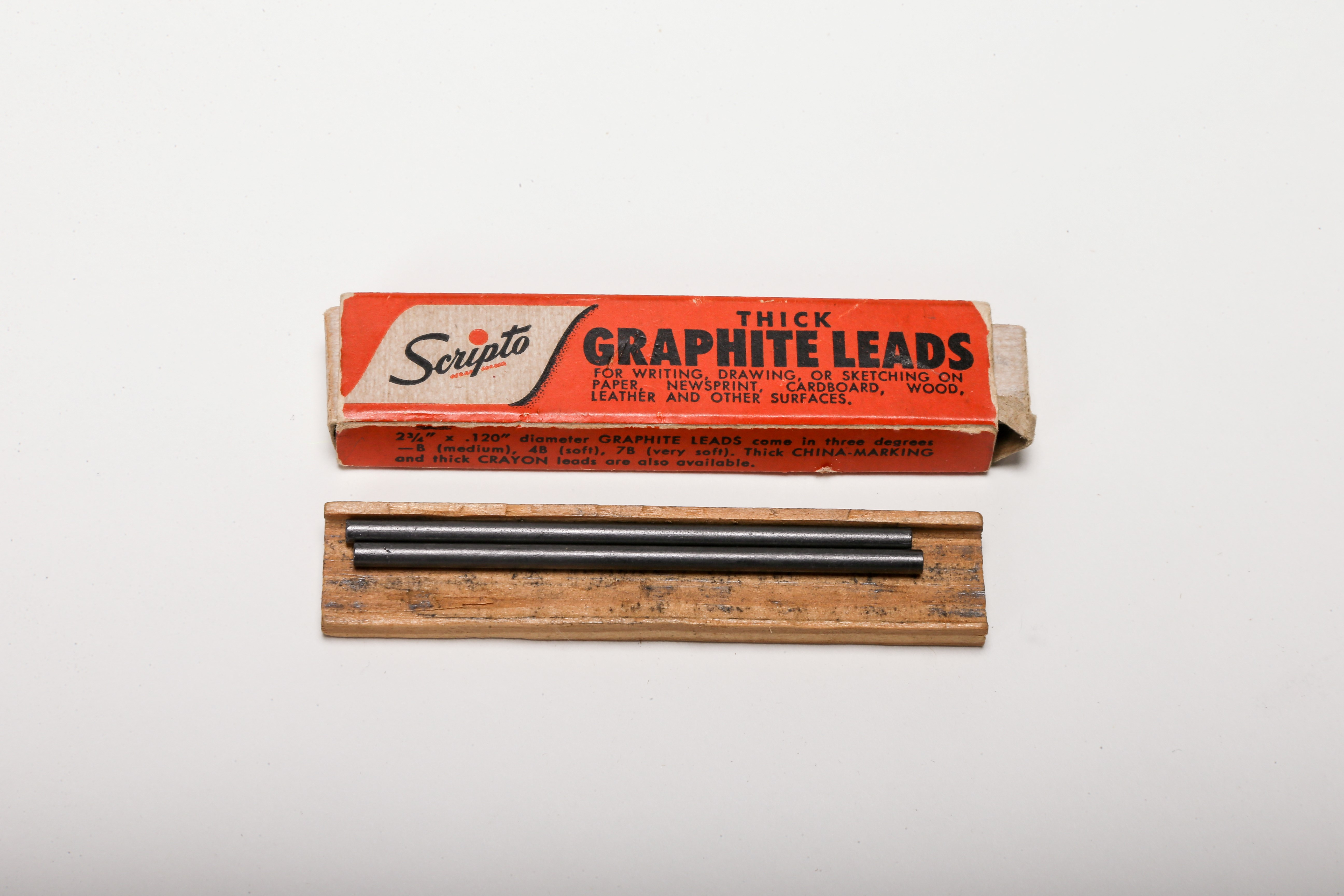 Drafting pencils